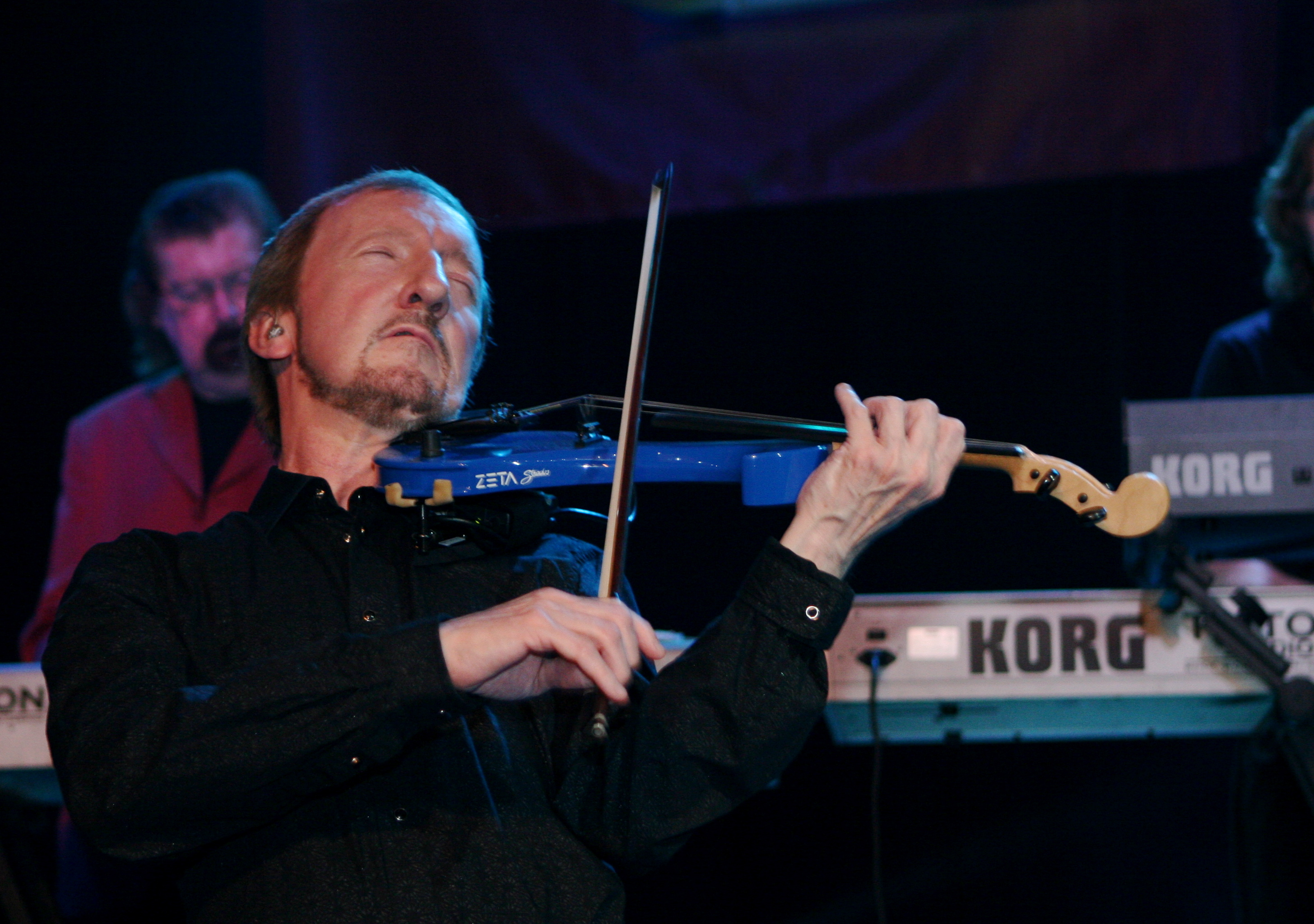 Violinist Mik Kaminski of the band Electric Light Orchestra in concert in Barcelona on June 6, 2008